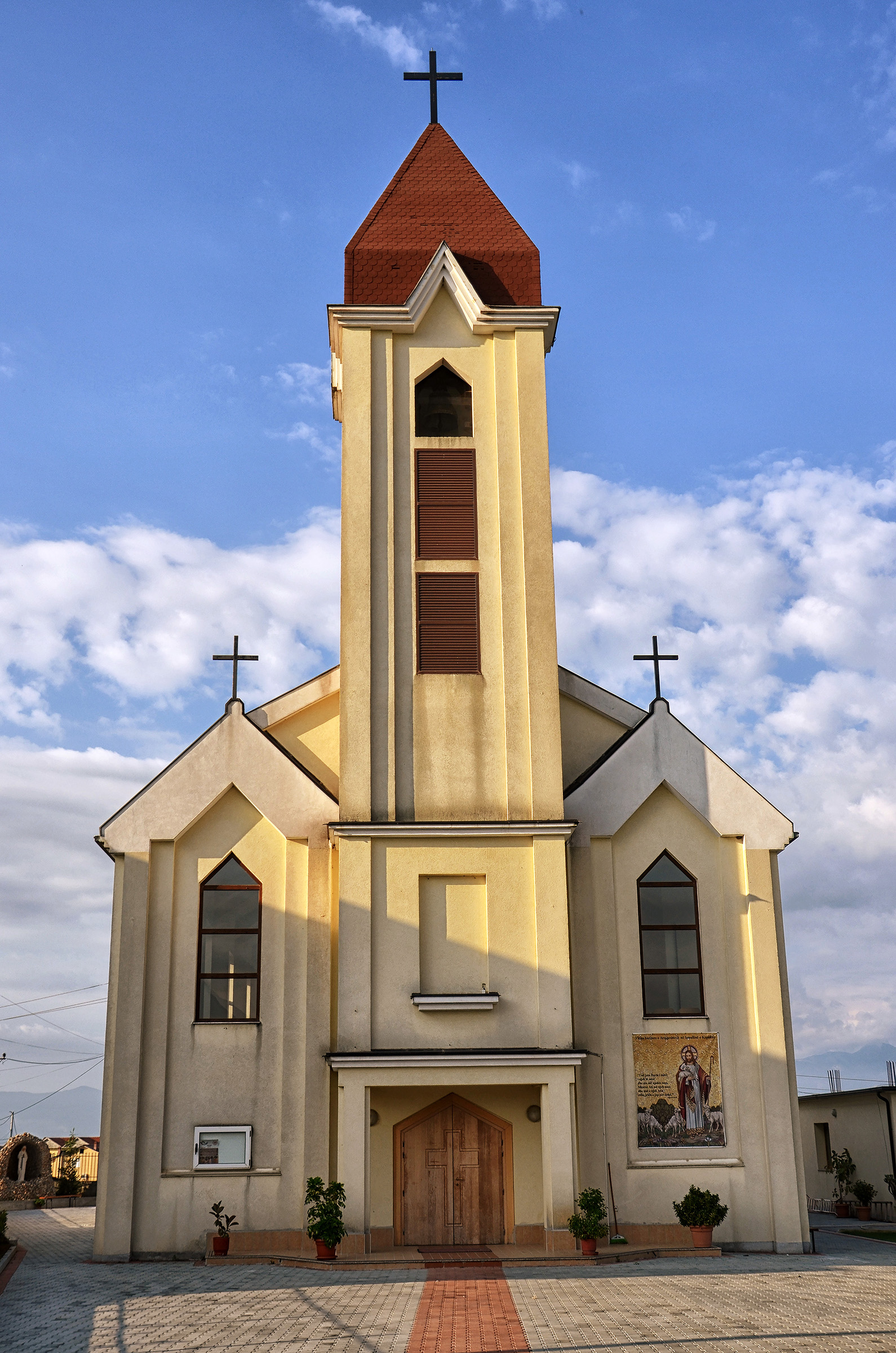 The Roman Catholic St John the Baptist's Church in Koplik, Albania